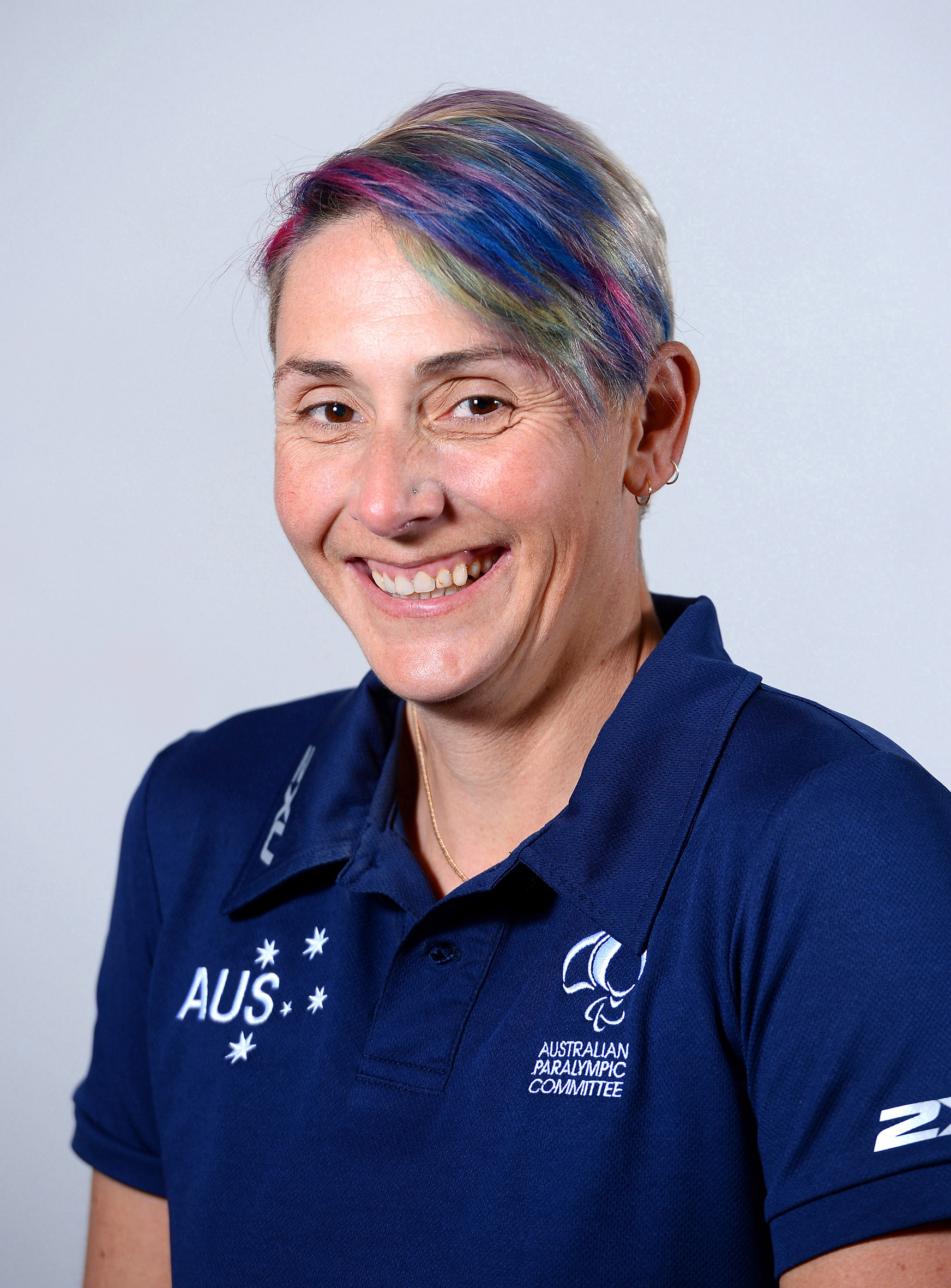 Portrait photograph of Amanda Reynolds taken at team processing session for shadow members of 2016 Australian Paralympic team